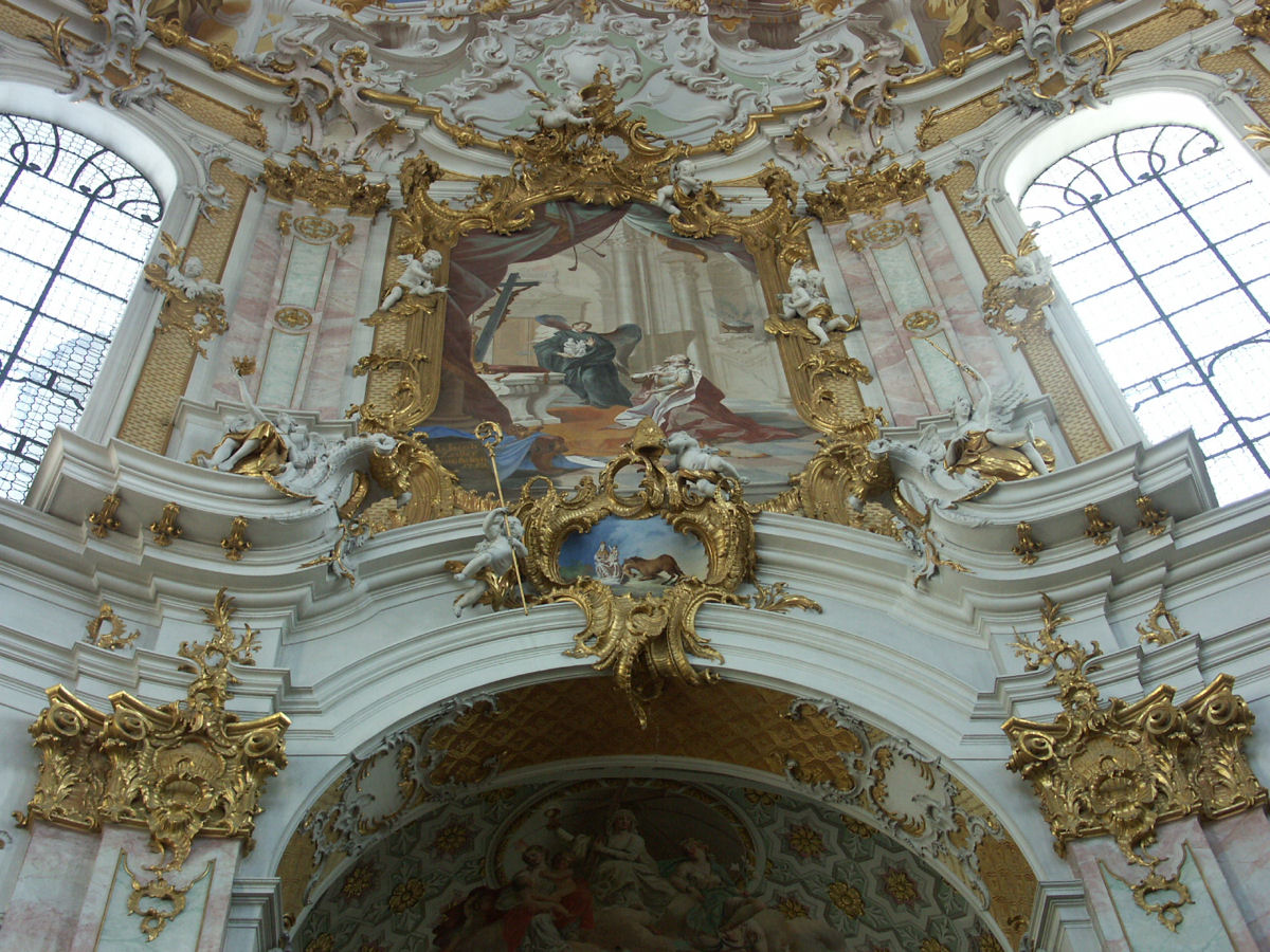 Image depicting the founding of Ettal Abbey by Louis IV, Holy Roman Emperor Ettal Abbey Native nameKloster EttalLocationEttal, Upper Bavaria, GermanyCoordinates47° 34′ 09.33″ N, 11° 05′ 40.42″ E Established14th century date QS:P,+1350-00-00T00:00:00Z/7Web page control : Q253359 VIAF: 123231235 ISNI: 0000 0001 0719 7158 LCCN: n85339281 GND: 1031761-2 NKC: kn20140319007 WorldCat institution QS:P195,Q253359